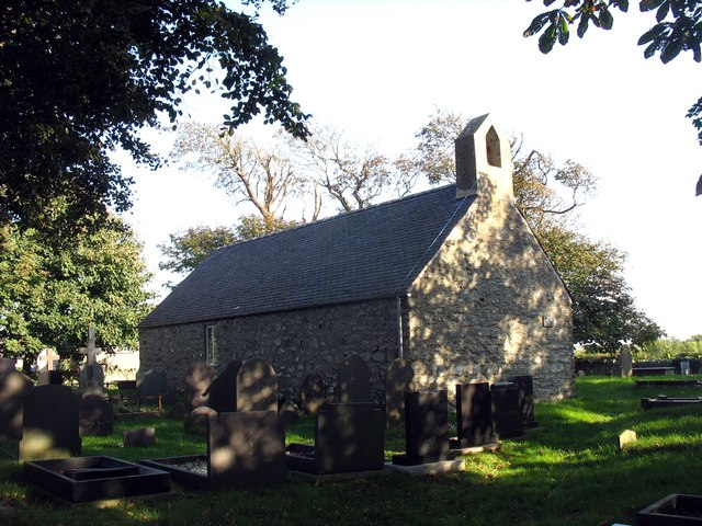 Eglwys Llanfigail /Llanfigael Church This now little used church in a very sparsely populated area is dedicated to the Celtic saint, St Figel (pronounced "Vigel"). There has probably been a church on this site since the Dark Ages - certainly one was recorded in the Norwich Taxation of 1254. By the eighteenth century it had become a ruin but was largely rebuilt in 1835. It is also spelt as Llanfigael.